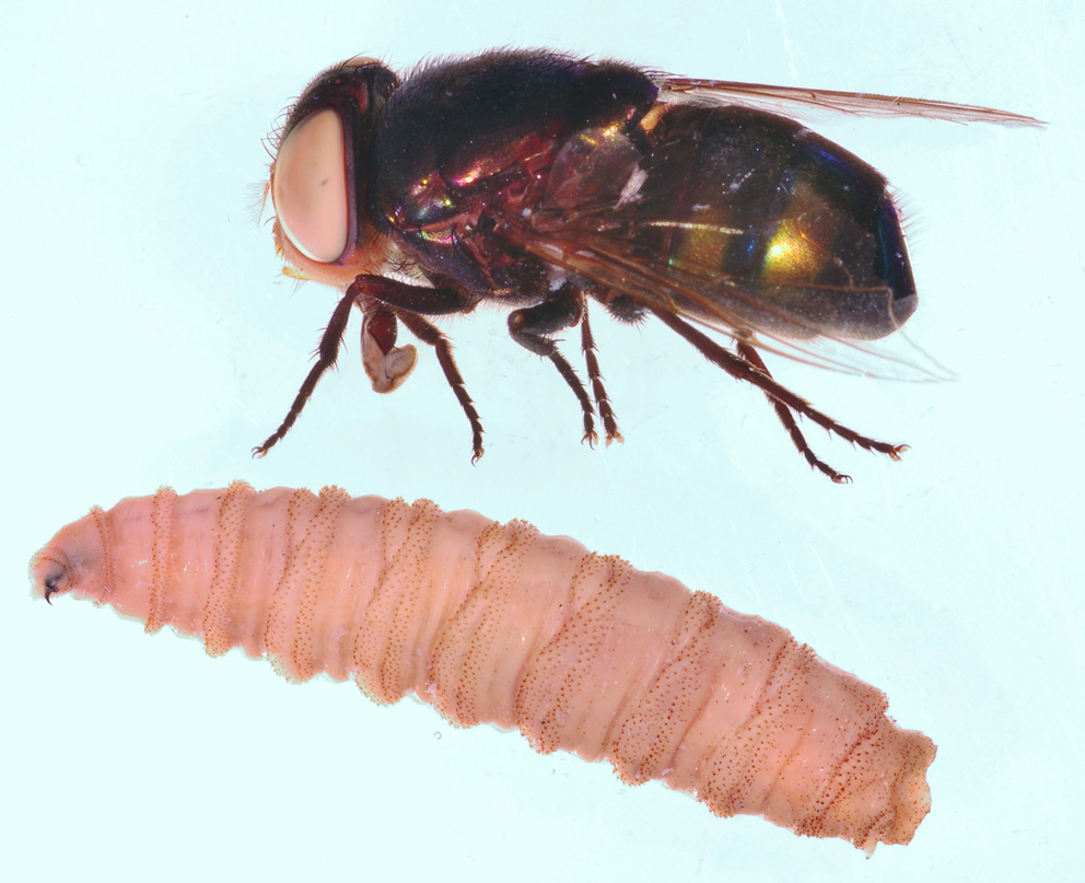 Chrysomya adult and mature larva, a typical Screw-worm fly, causing myiasis (live adults have red/brown eyes and shiny green/blue abdomen).